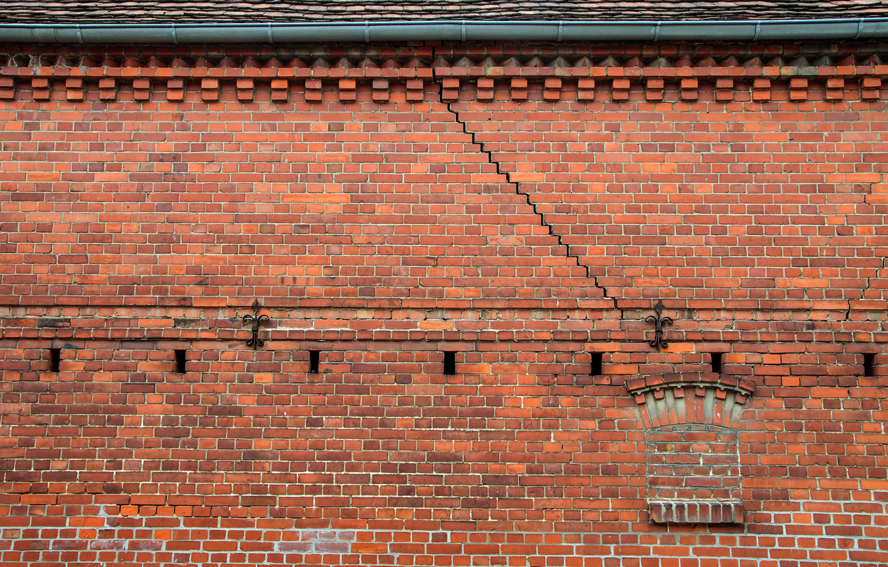 Farm building with frieze and wrought iron lilies